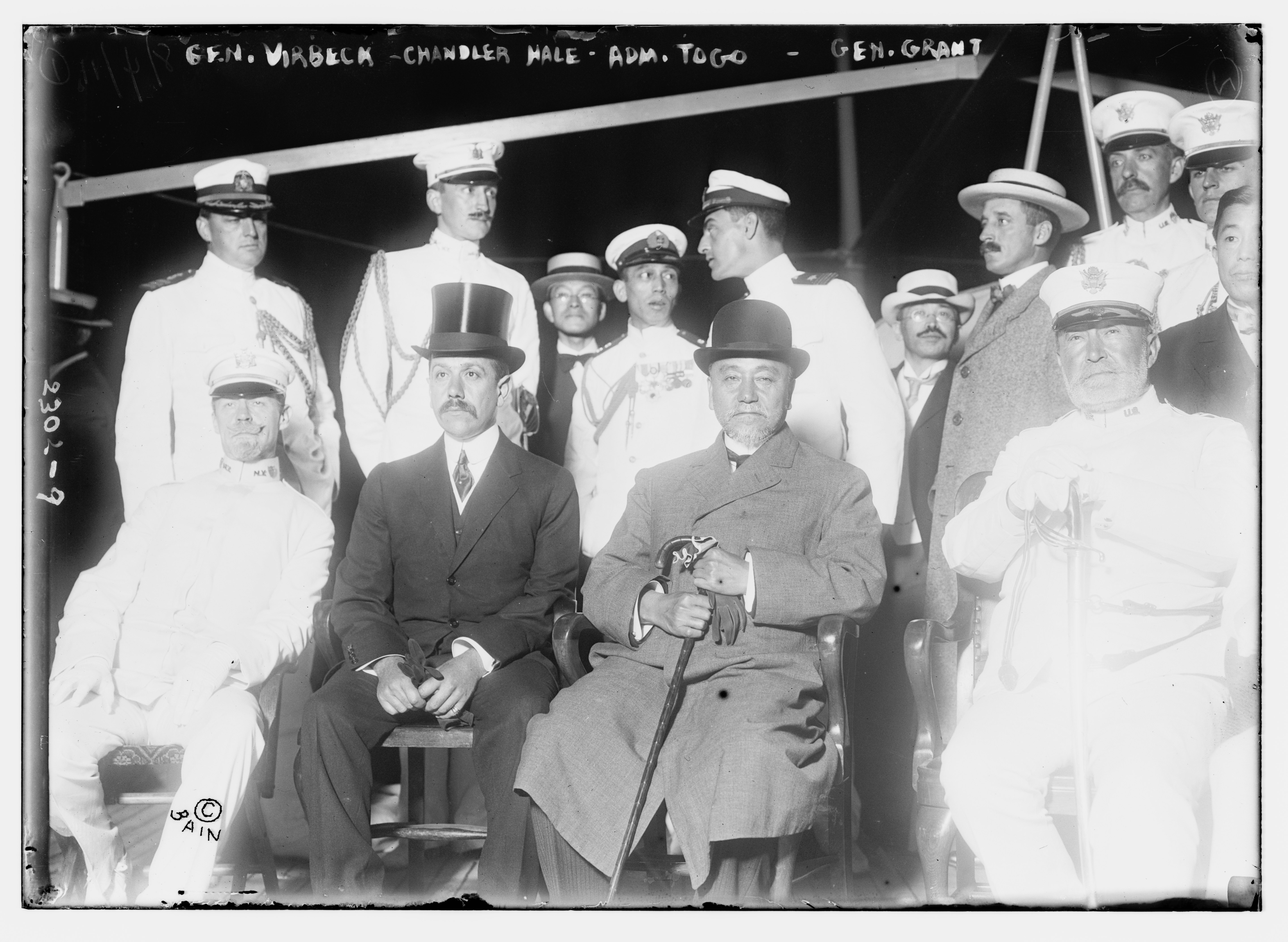 Title: Gen. Verbeck (aka Virbeck); Chandler Hale; Admiral Togo; and Frederick Dent Grant Abstract/medium: 1 negative : glass ; 5 x 7 in. or smaller.